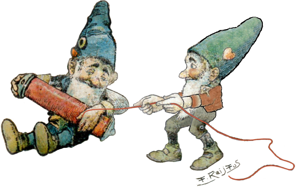 Two Gnomes draw by F. Rajsfus, German empire, 1911, on a sewing box